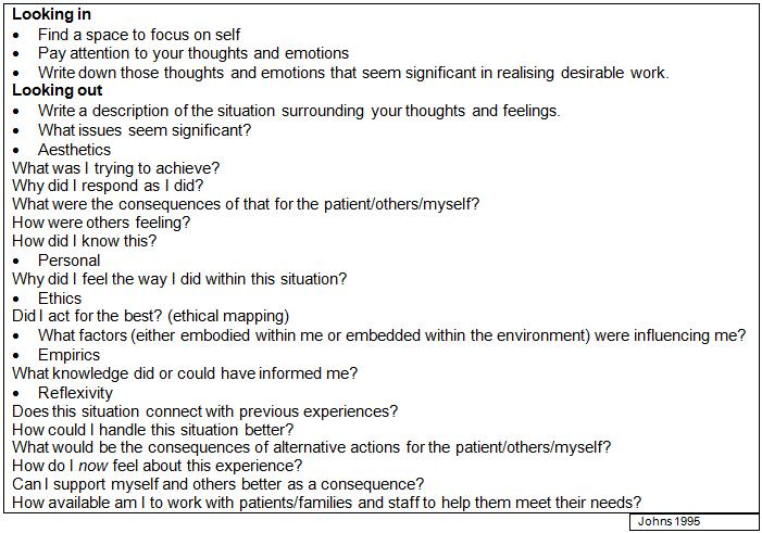 Adaptation of John Model